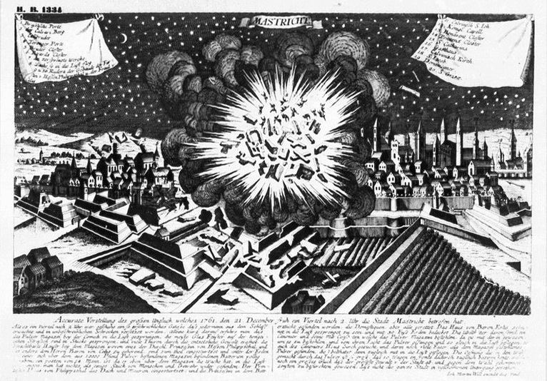 Maastricht, the Netherlands. Artistic impression of a gunpowder explosion in Maastricht on 21 December 1761 that caused 19 deaths, Copper etching published by Johann Martin Will, Augsburg, 1762.